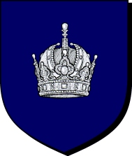 Original Coat of Arms of Johan Casper Richter von Krownenscheldt